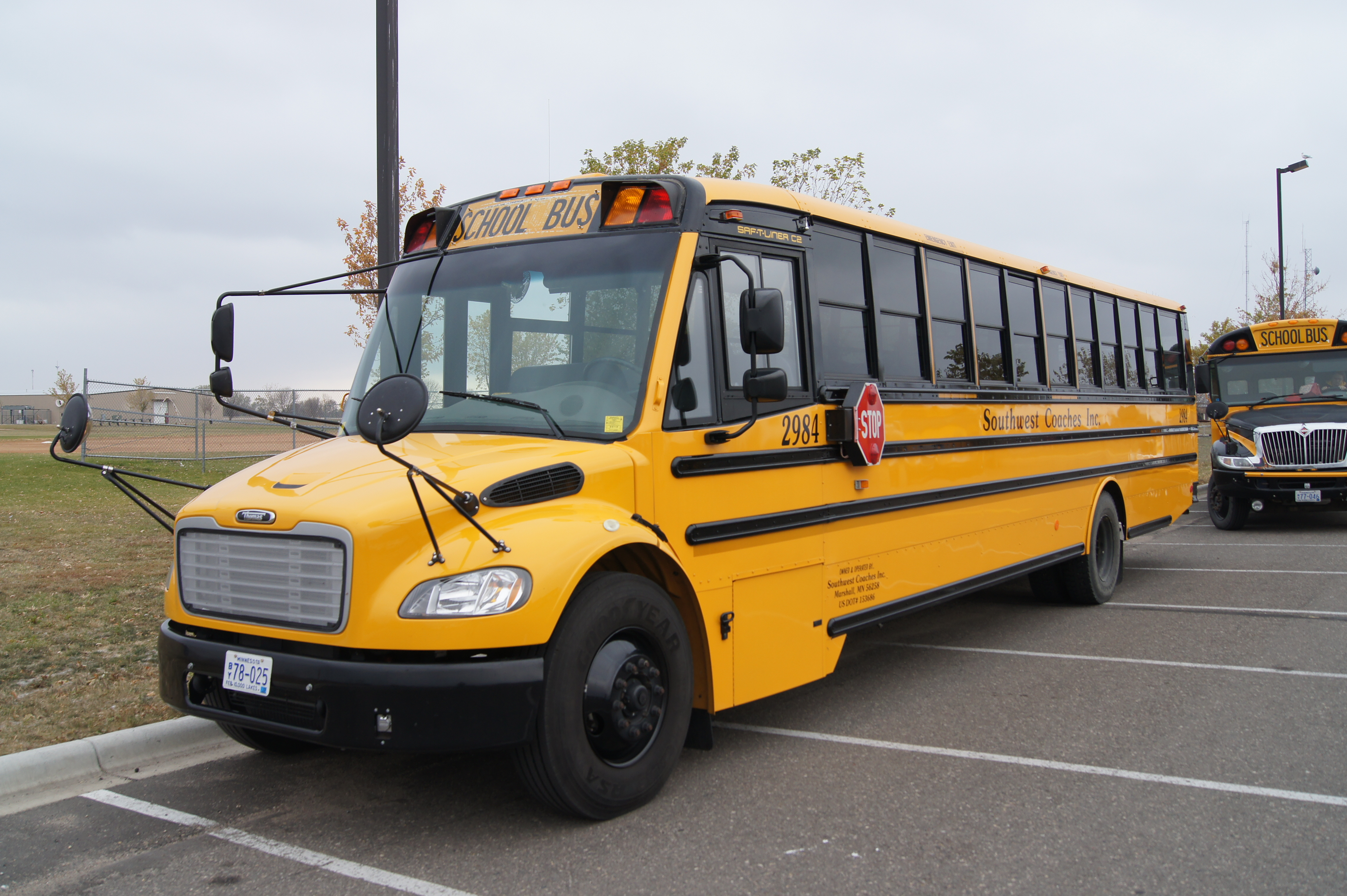 A front 3/4 view of a Thomas Saf-T-Liner C2 school bus operated by bus contractor Southwest Coaches.